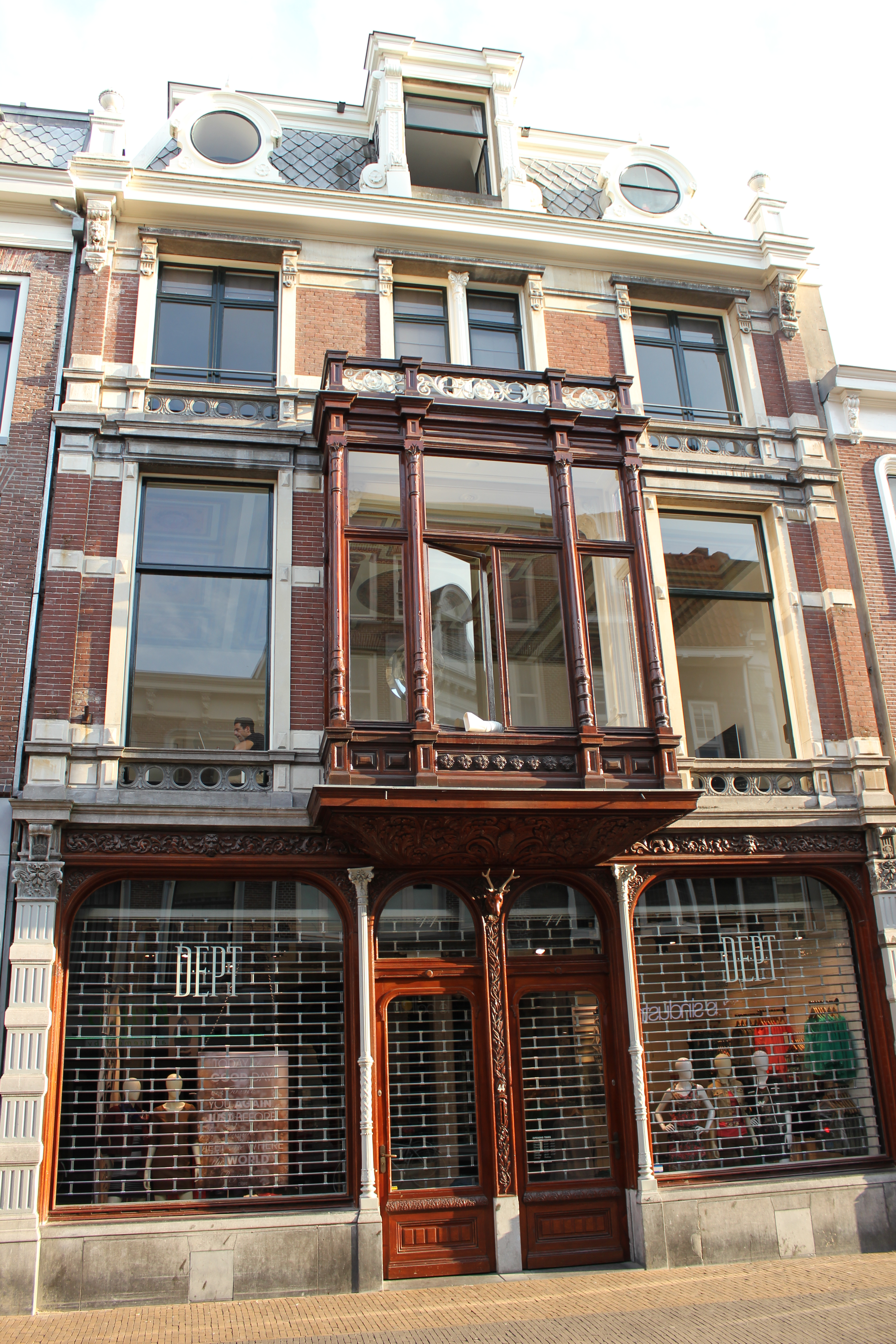 Rijksmonument Steenweg 44 in Utrecht, architect W.J. van Vogelpoel